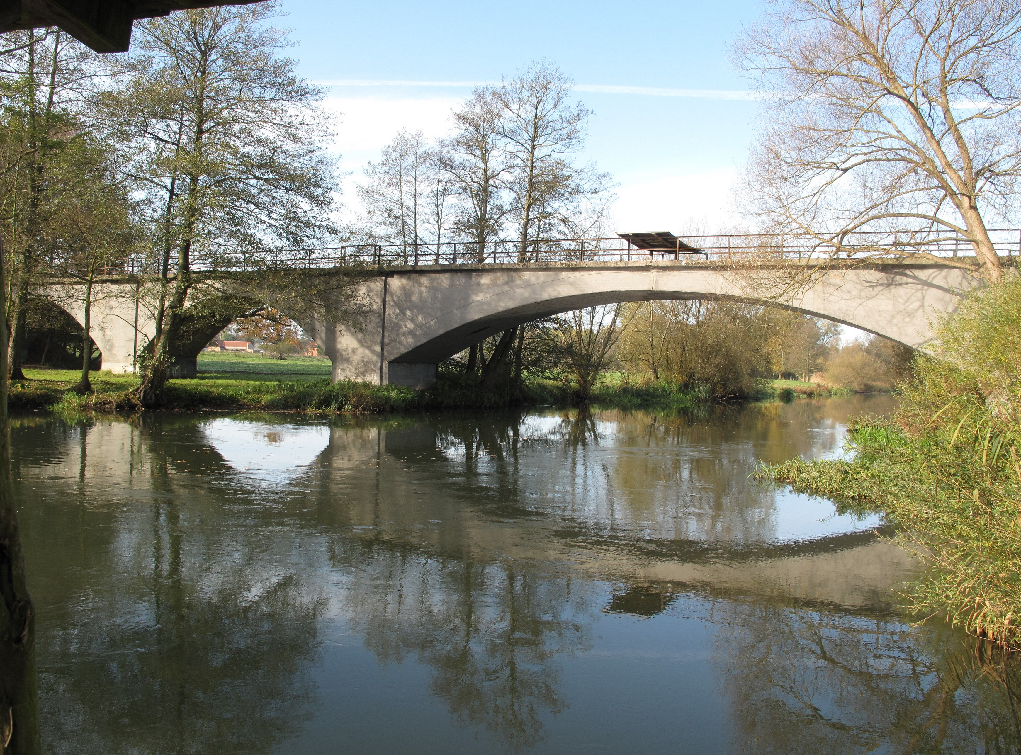 The Railway bridge Briescht is a disused stone arch bridge in the village Briescht, a part of the municipality Tauche in the District Oder-Spree, Brandenburg, Germany. The bridge of the Niederlausitzer Eisenbahn spans the river Spree. This part of the railway-line was opened in 1901. Shortly before the end of the Second World War the bridge was blown up and after the rebuilt already put in operation in 1951. In 1995 this part of the railway line was disused. In the east of the bridge (in the picture on the left) is situated the Naturschutzgebiet (protected area)/Natura 2000-area Naturschutzgebiet Spreebögen bei Briescht, in the west (in the picture on the right) the Natura 2000-area Spree. In addition, the entire floodplain including the bridge is part of the Landschaftsschutzgebiet (german for: landscape protection area) Krumme Spree.